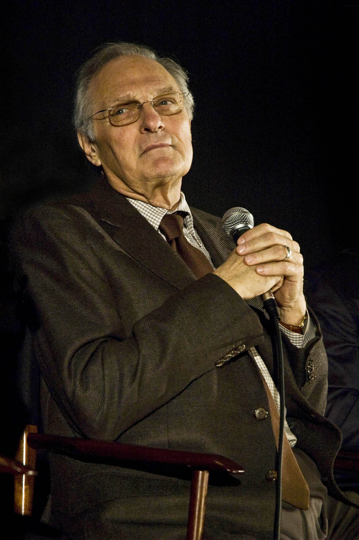 Alan Alda (born January 28, 1936) is an American actor, director and screenwriter. his photo was taken on December 14, 2008 during a Question & Answer session following a screening of the movie "Nothing But the Truth" in Morristown, New Jersey.